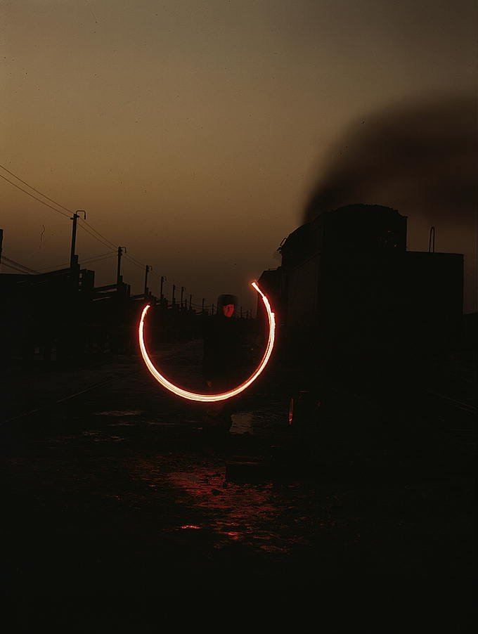 A brakeman for the Indiana Harbor Belt Railroad, in January 1943, demonstrates a signal indicating "stop" with a fusee. Photo by Jack Delano, United States Office of War Information. Library of Congress call number LC-USW36-630. [1] (retrieved November 23, 2005) asserts "Photographs in this collection were taken by photographers working for the U.S. Government. Generally speaking, works created by U.S. Government employees are not eligible for copyright protection in the United States." Файл:Demonstrating fusee use.jpg